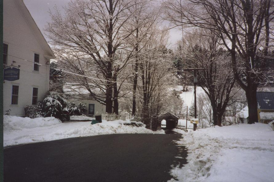 Winter scene in Church Street in Waterville, Vermont, with the covered bridge in the background and the Waterville Union Church on the left. Picture taken by User:Walkerma, early 2000, and scanned in from the photograph.